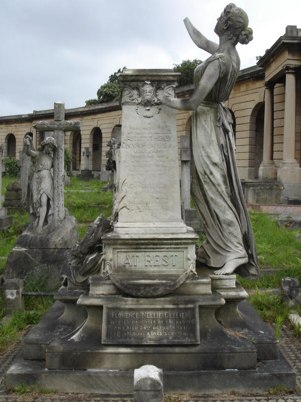 Photograph of Augustus Henry Glossop Harris (1852-1896) funerary monument, Brompton Cemetery, London.